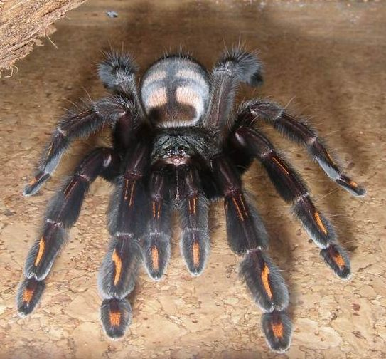 Psalmopoeus irminia female L9